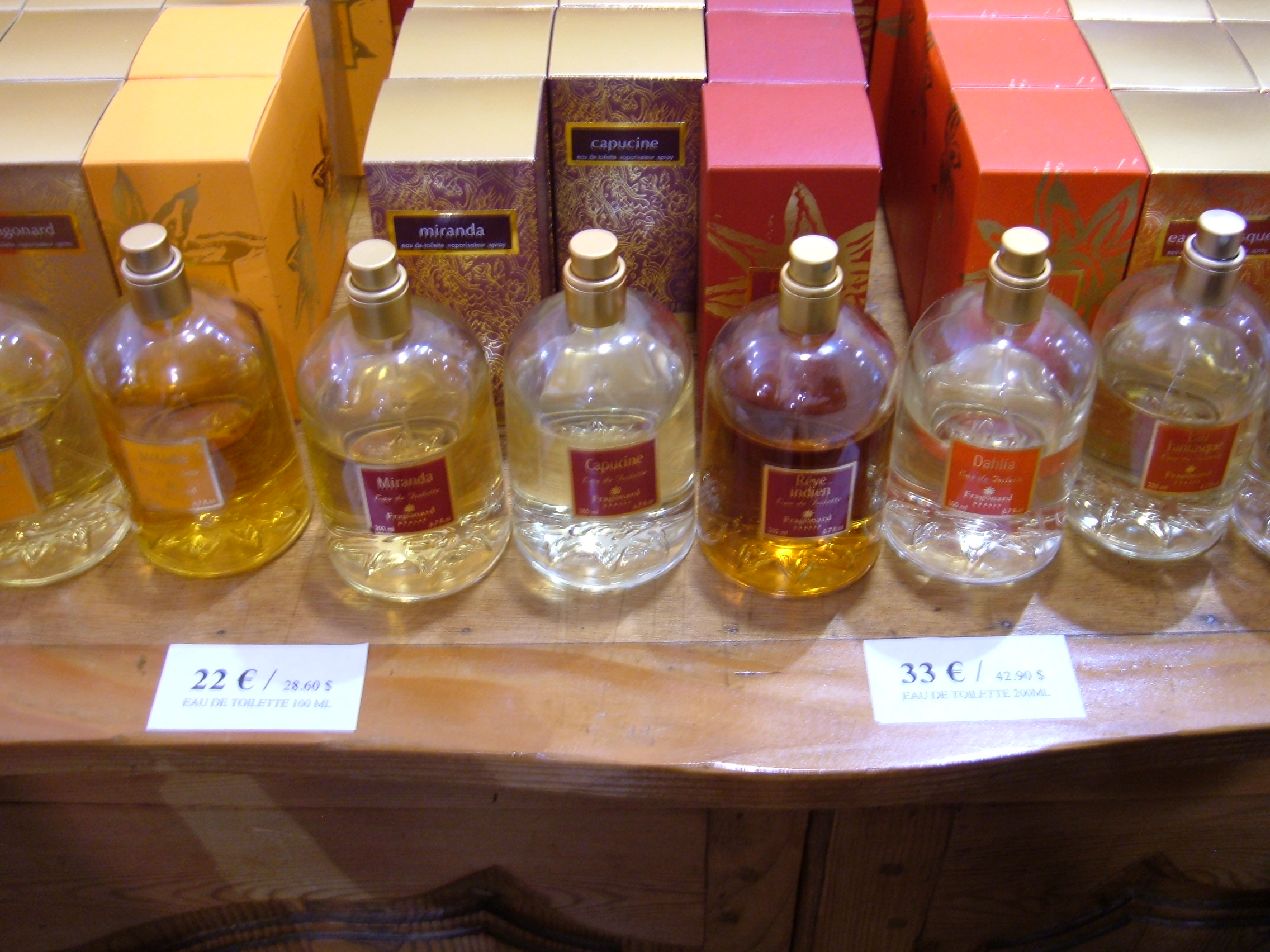 Scent bottles with perfume finger sprayers. Samples of women's perfumes at the Fragonard perfume factory in Èze, France.